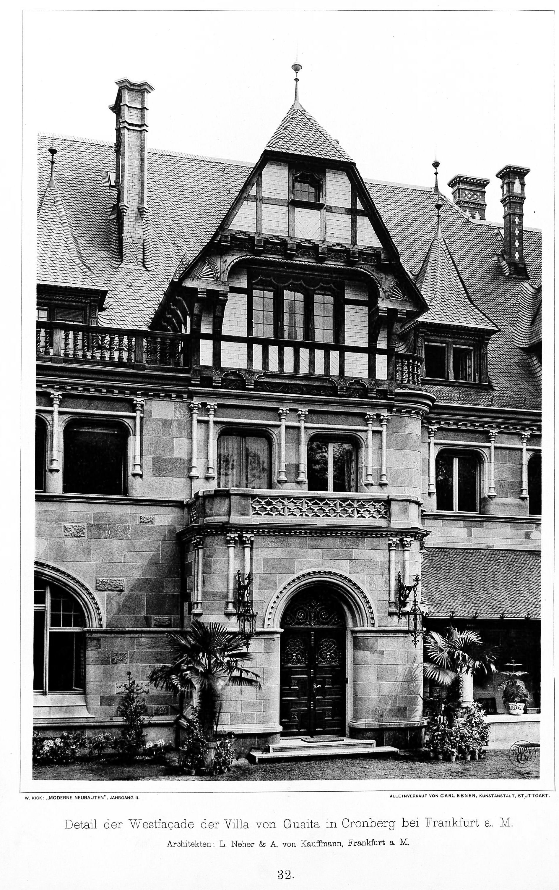 Villa_von_Guaita_in_Cronberg_bei_Frankfurt_Architekten_L._Nehe_&_A._von_Kauffmann,_Frankfurt,_Detail,_Tafel_31,_Kick_Jahrgang_II.jpg